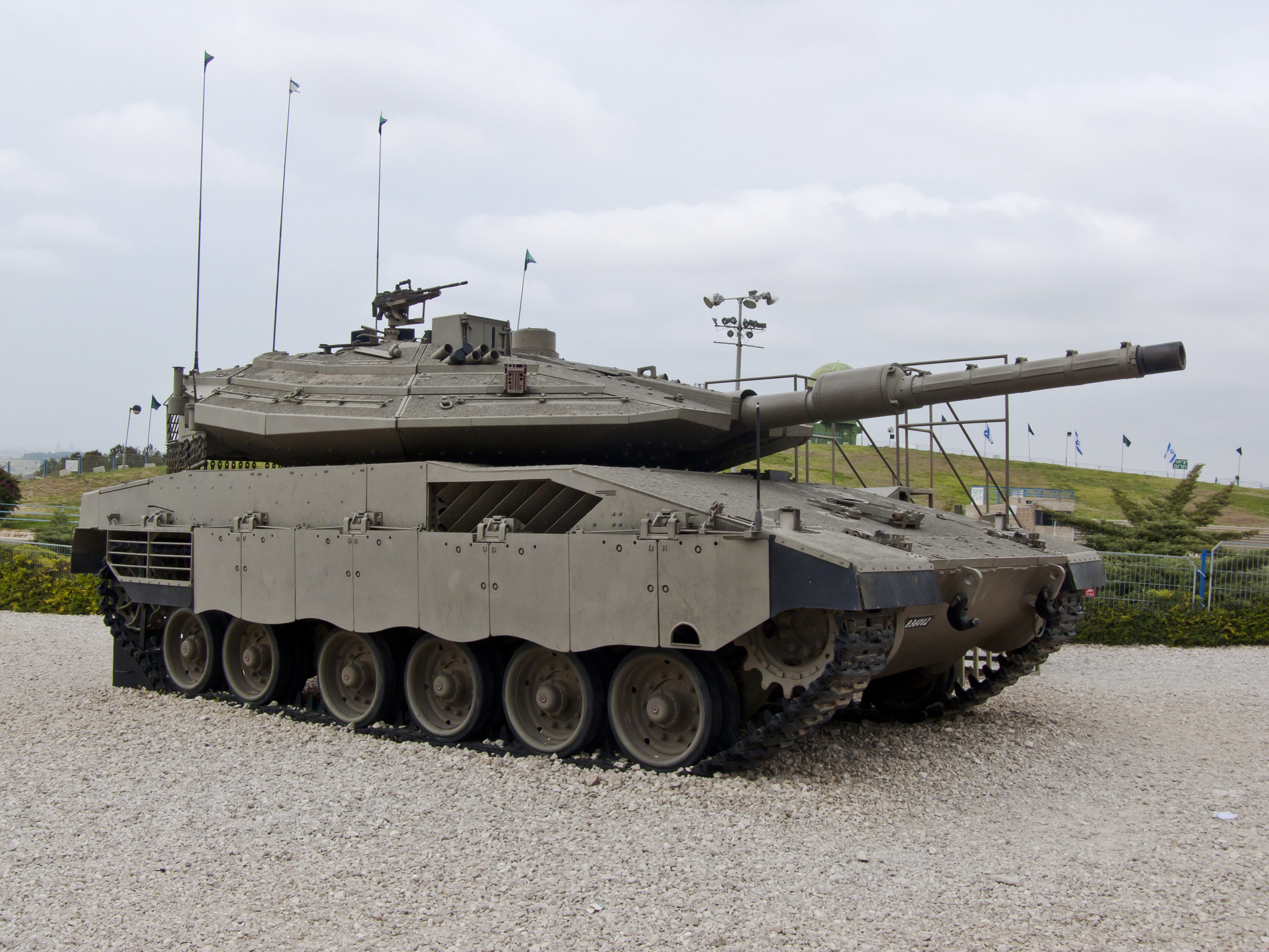 IDF Merkava Mk4 main battle tank